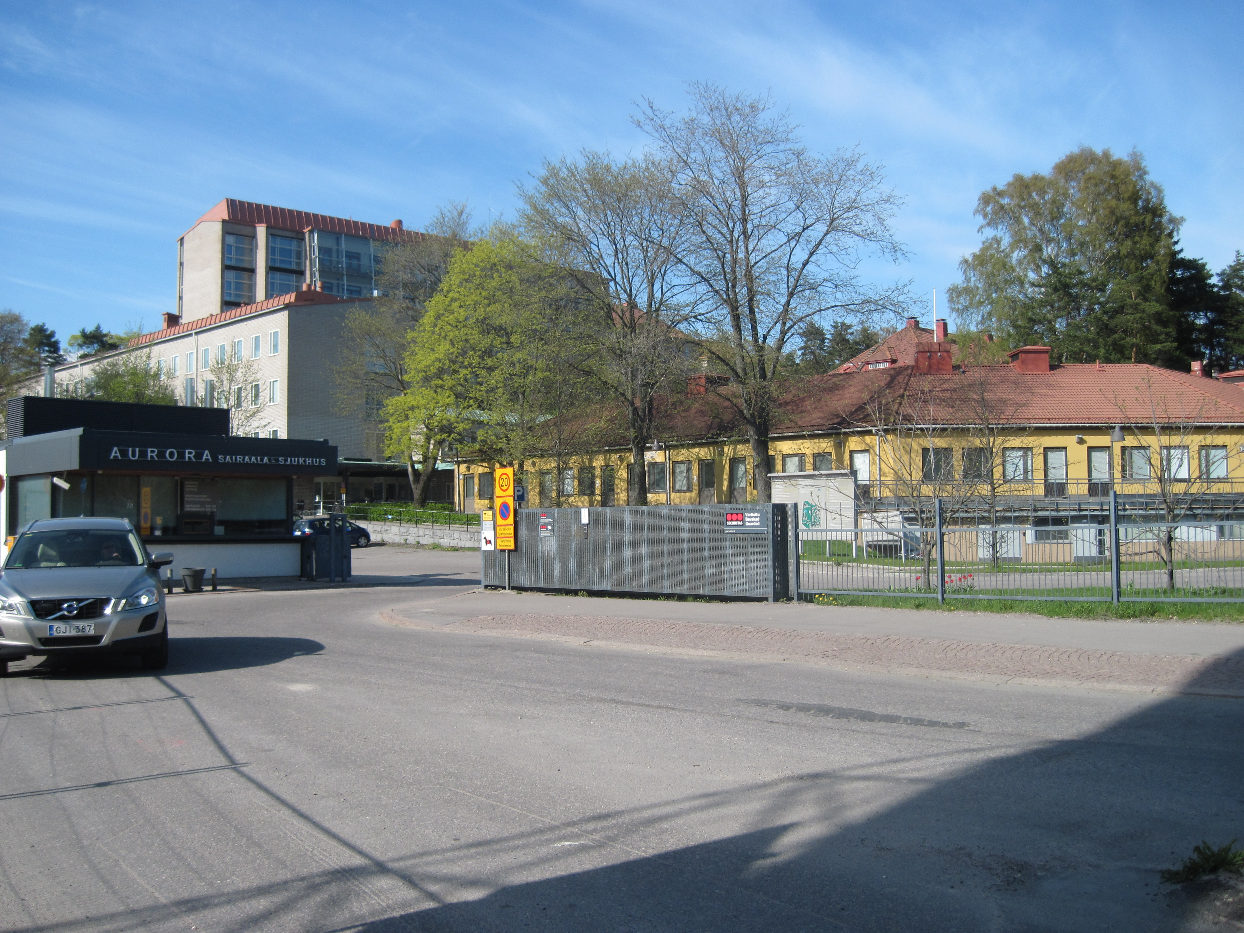 Aurora Hospital, Helsinki, Finland